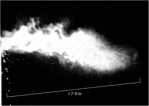 The turbulent plume produced by a human sneeze contains droplets, solid particles, and gasses. Shown is a sneeze plume stretching seven to eight meters away from the sneezer.